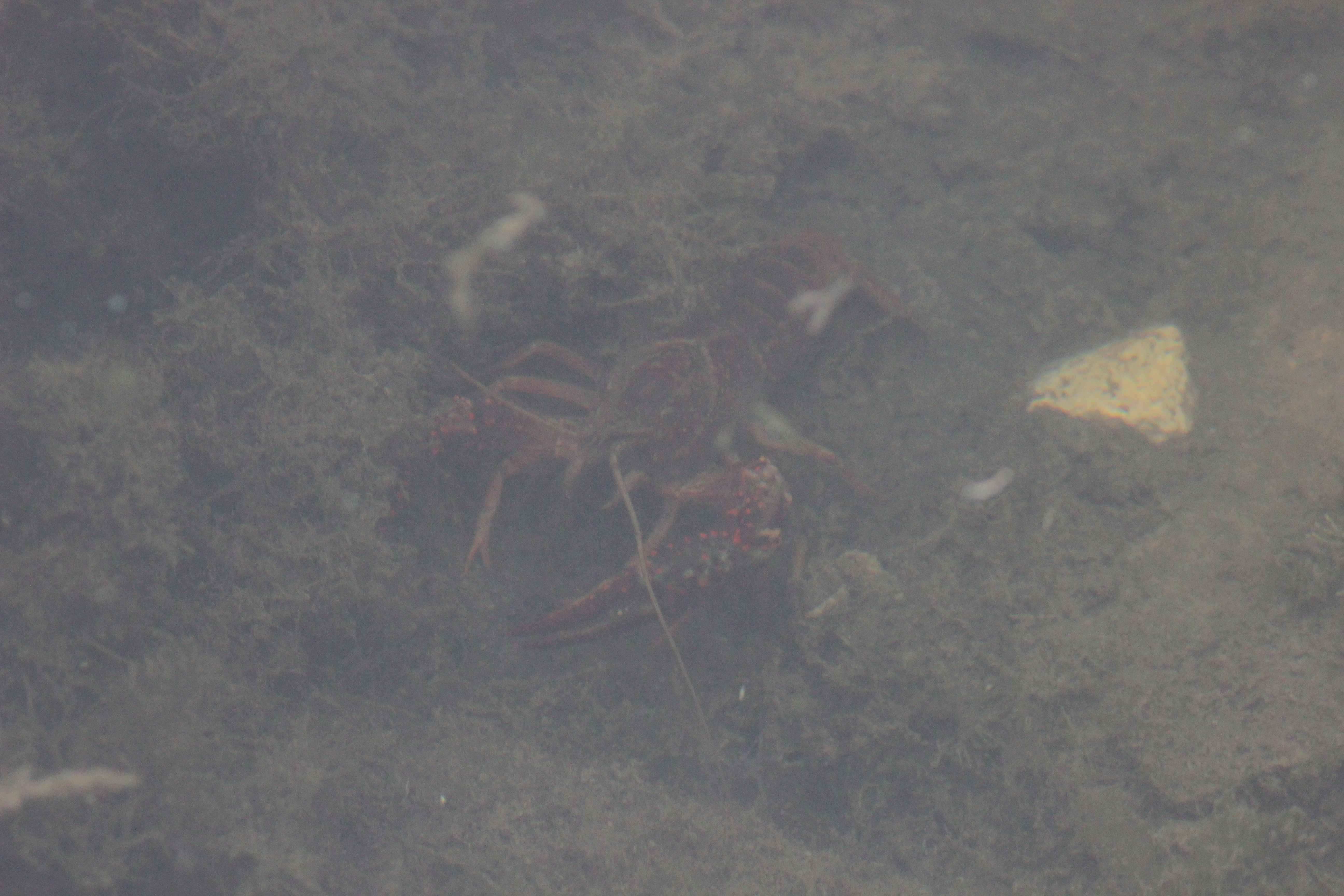 Crayfish at Ville d'Avray -low contrast.